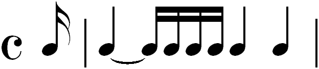 Dance rythm of Allemanda (historical dance) by:Ziga 16:43, 16 February 2007 (UTC)